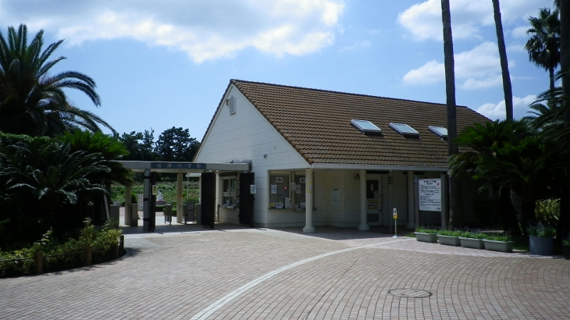 Yatsu Rose Garden